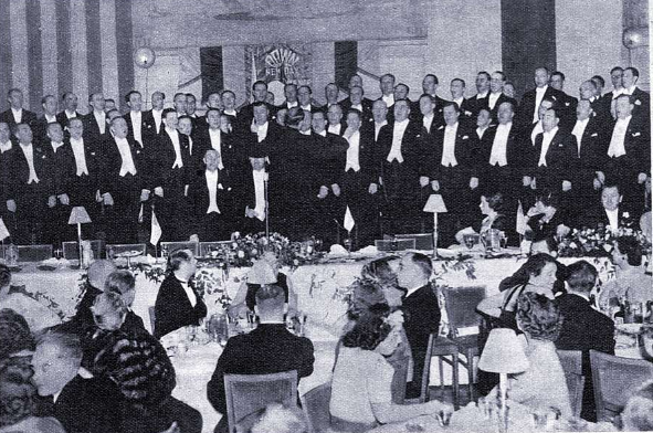 Finlandia choir 1939 - New York in Roosevelt Hotel